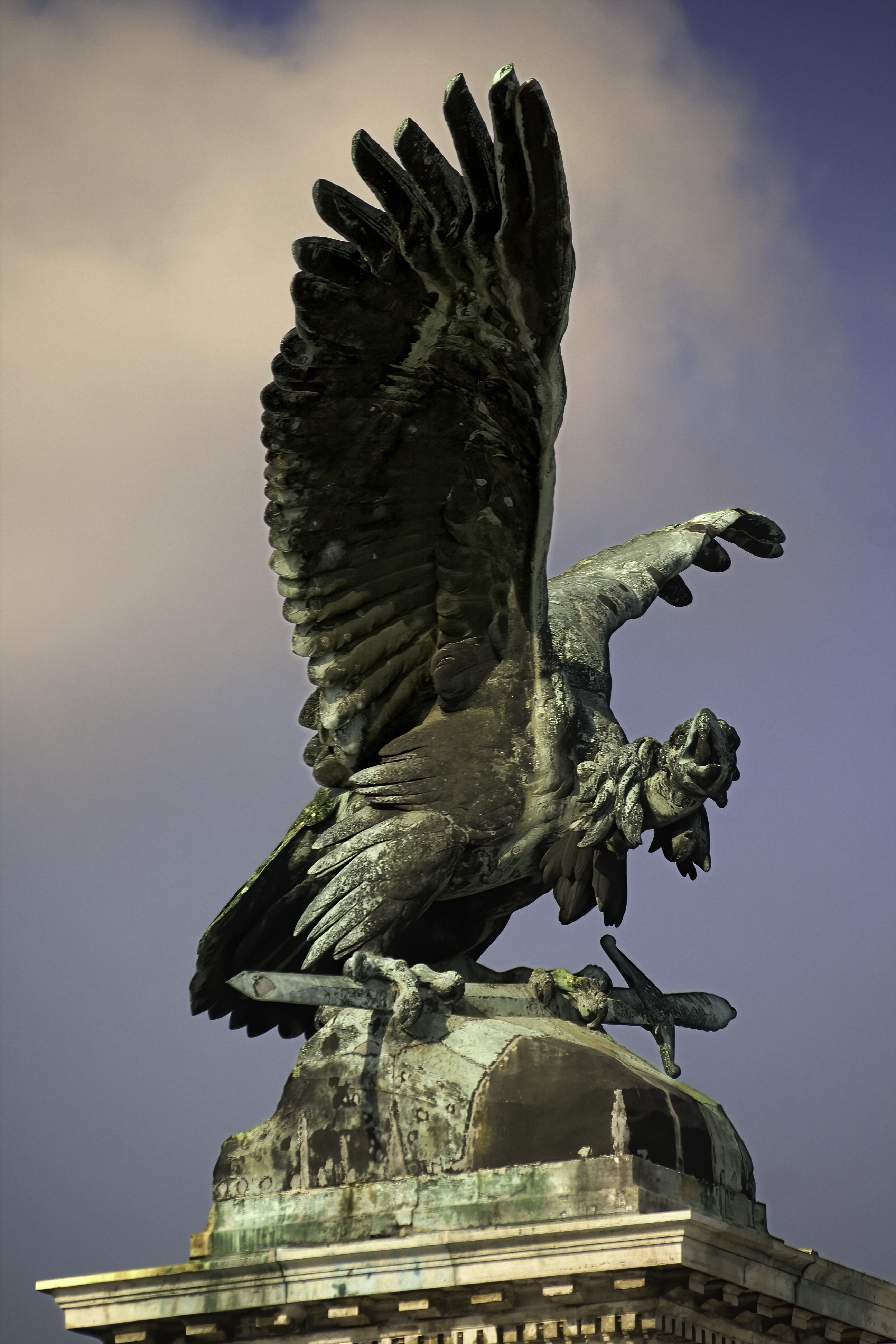 DUPA trip to Budapest, 20-23 February 2009 Turul, Hungarian mythological bird above the Habsburg Steps overlooking the Royal Palace of Buda.